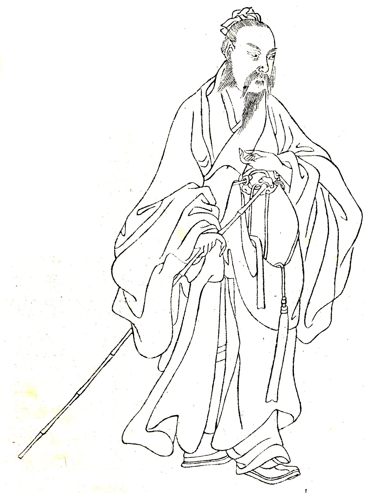 Feng Kuo Yong (馮国用, 1323 - 1358) was a Chinese military strategist, officer, statesmanof the late Yuan and early Ming dynasty.